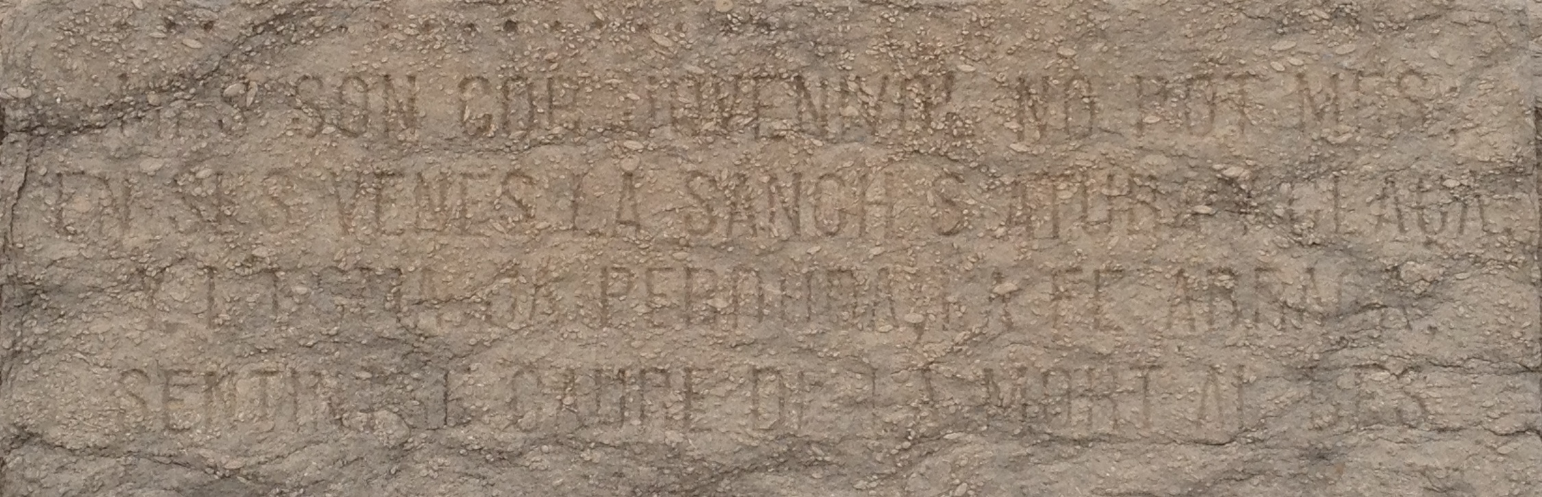 Kiss of Death (Poblenou Cemetery)